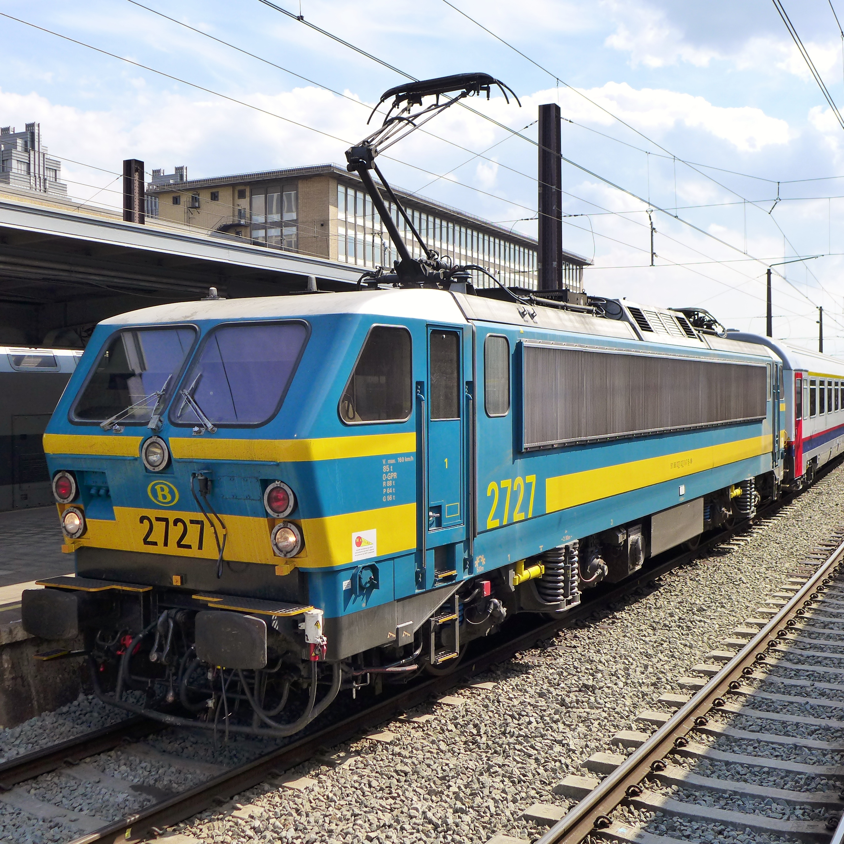 NMBS/SNCB Class 27 electric locomotive no. 2727 at Brussels-South railway station, Belgium